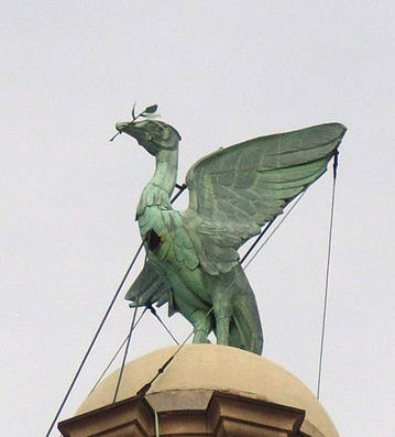 The Liver Bird, Royal Liver Building, Liverpool, England.